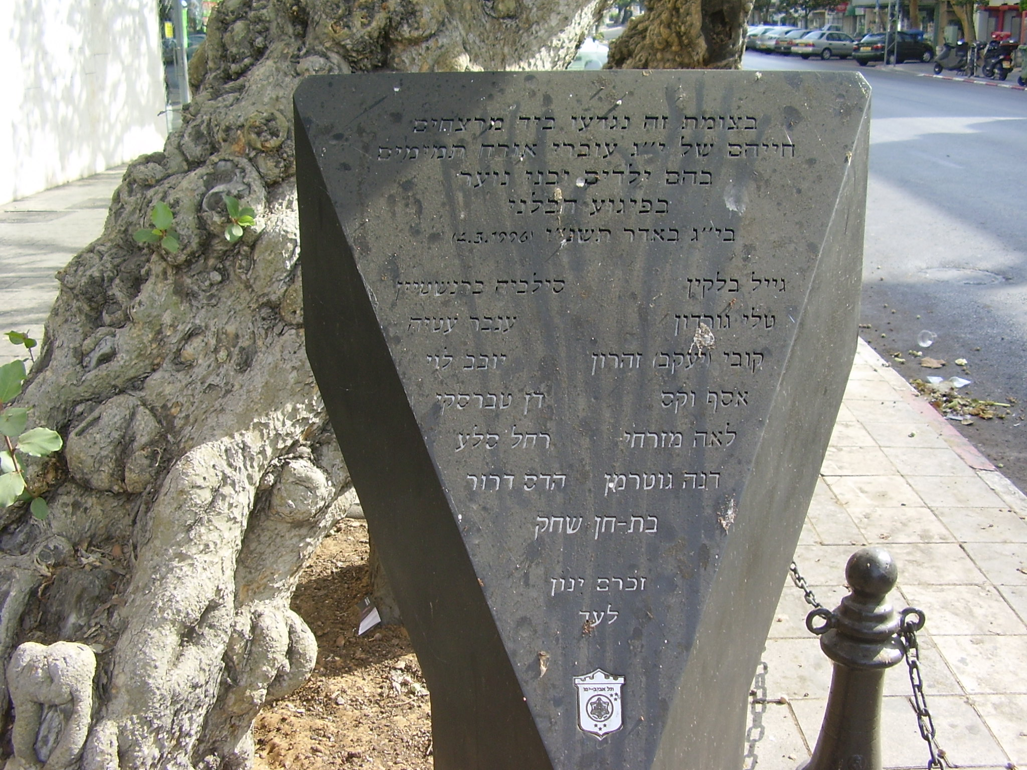 memorial to the victims of the terror attack in dizengof center in tel aviv (4/3/1996)